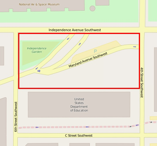 Boundaries (in red) of the proposed Dwight D. Eisenhower Memorial in Washington, D.C., in the United States, as approved November 8, 2005. This map of Washington, D.C., U.S. was created from OpenStreetMap project data, collected by the community. This map may be incomplete, and may contain errors. Don't rely solely on it for navigation.